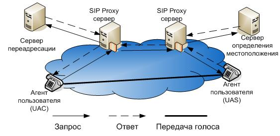 SIP network example